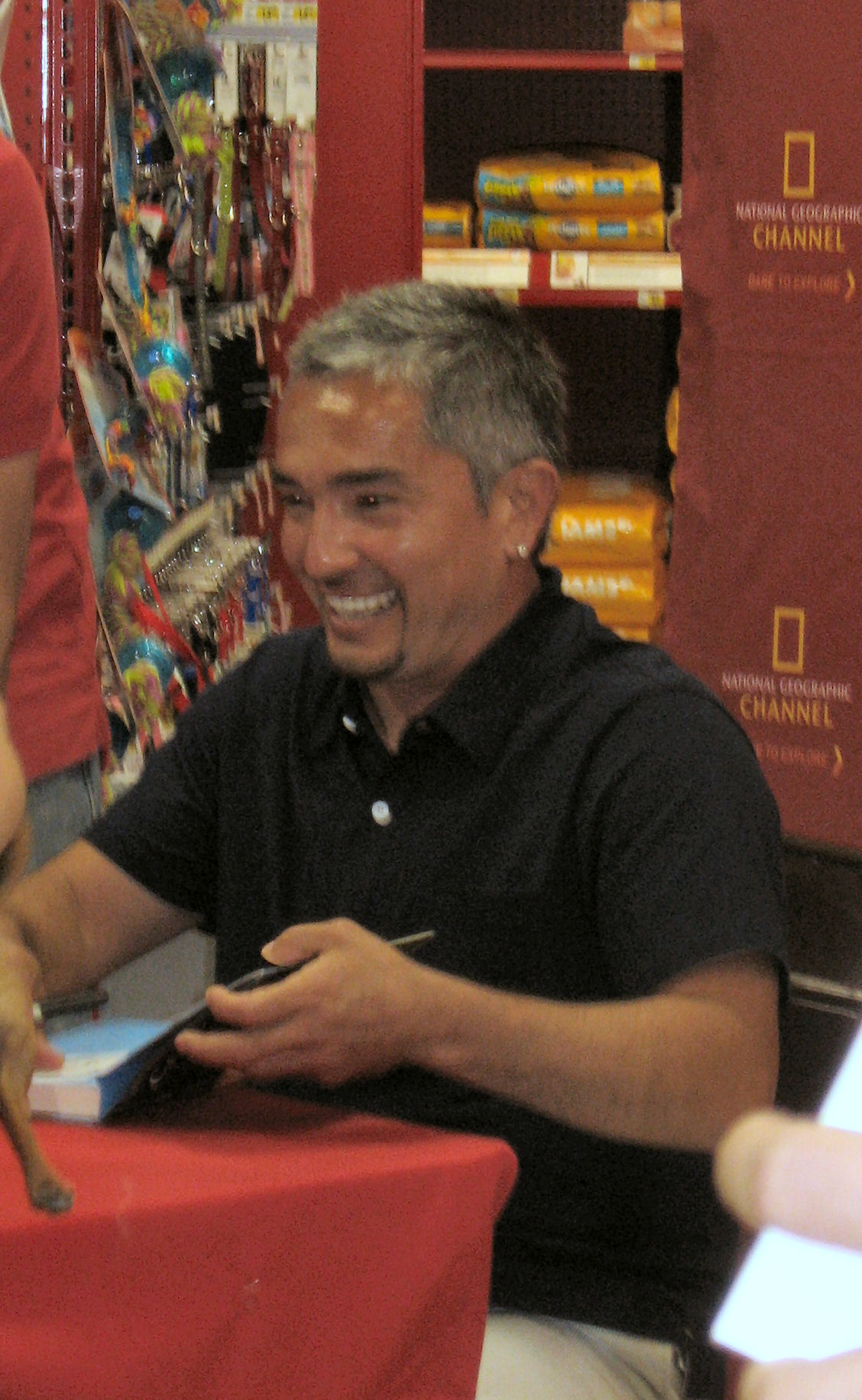 Cesar Millan, the dogwhisperer